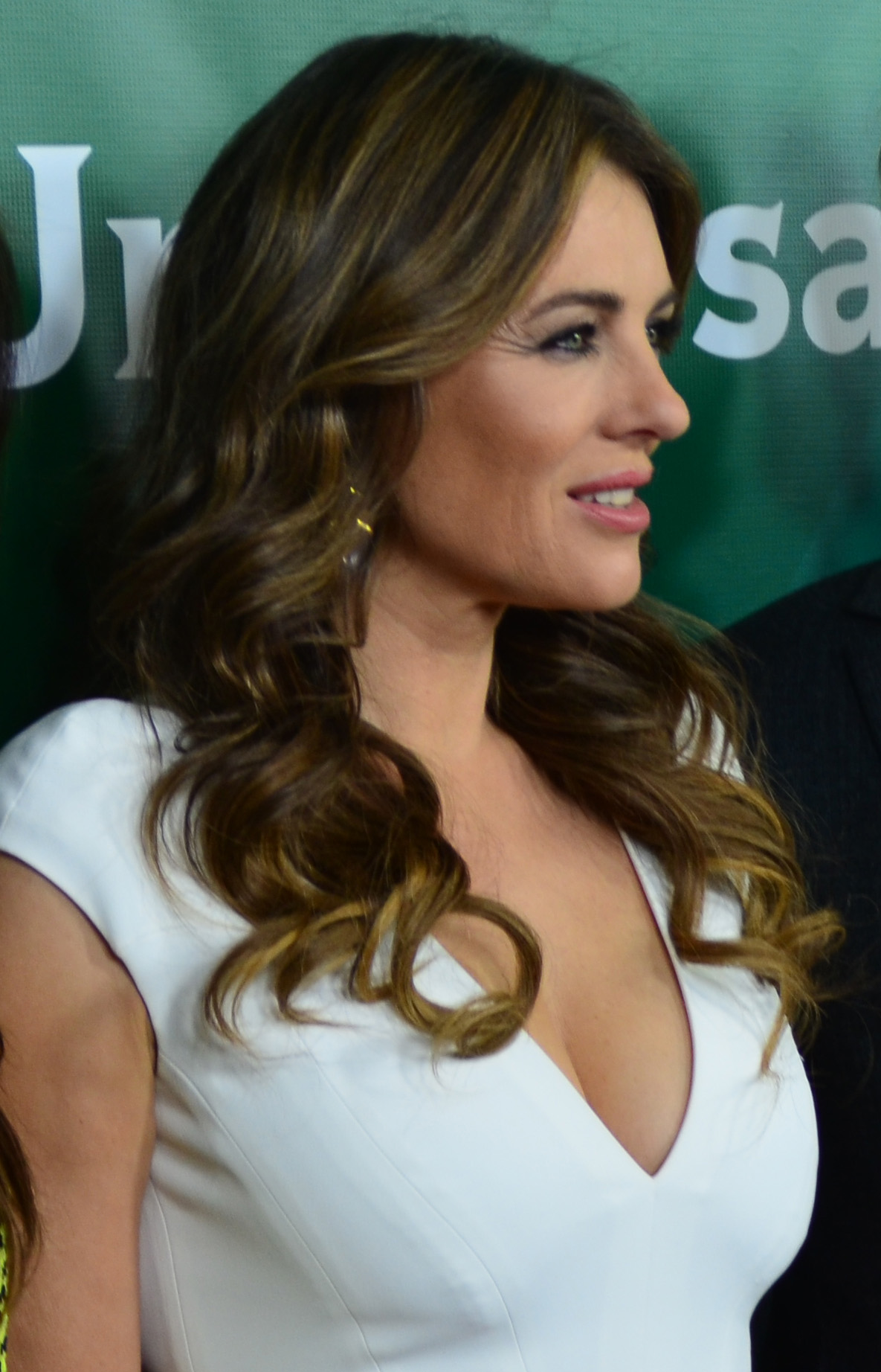 Elizabeth Hurley at the 2015 Television Critics Association’s Press Tour for the NBC Universal TV show announcements, interviews with cast and creators at The Langham Huntington Hotel in Pasadena, CA on January 15, 2015